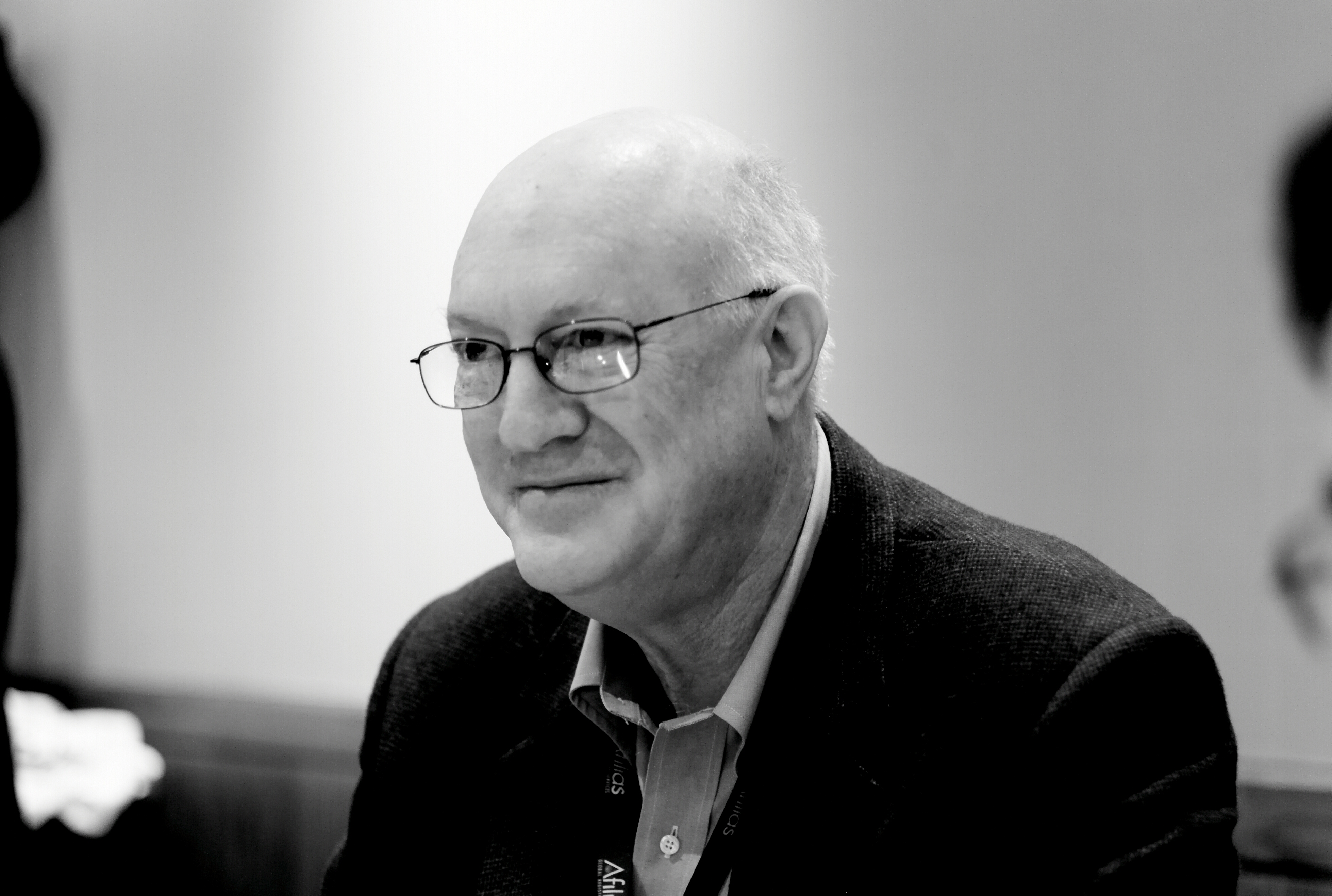 Steve Crocker